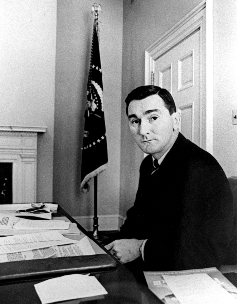 Kenneth P. O'Donnell, Special Assistant to the President